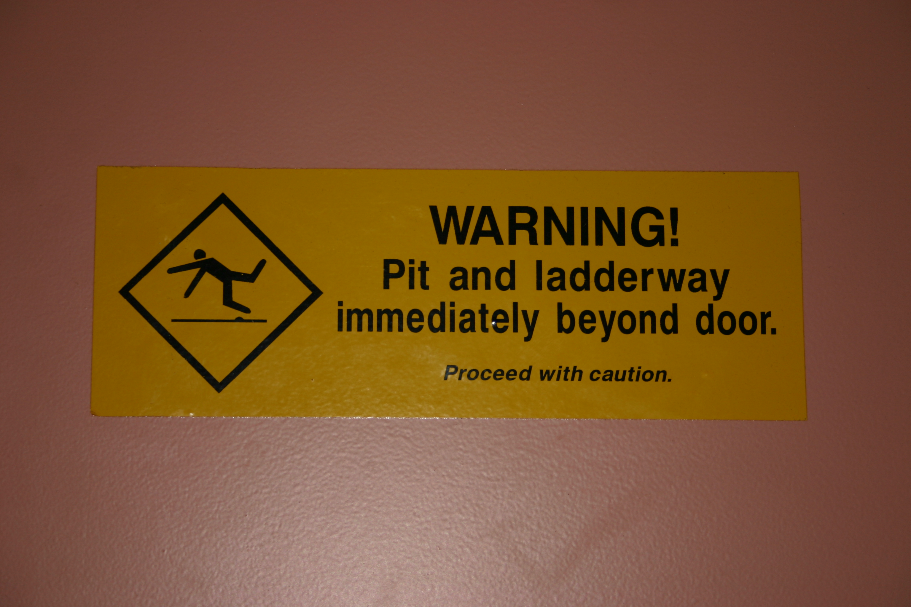 Caution sign for an open pit